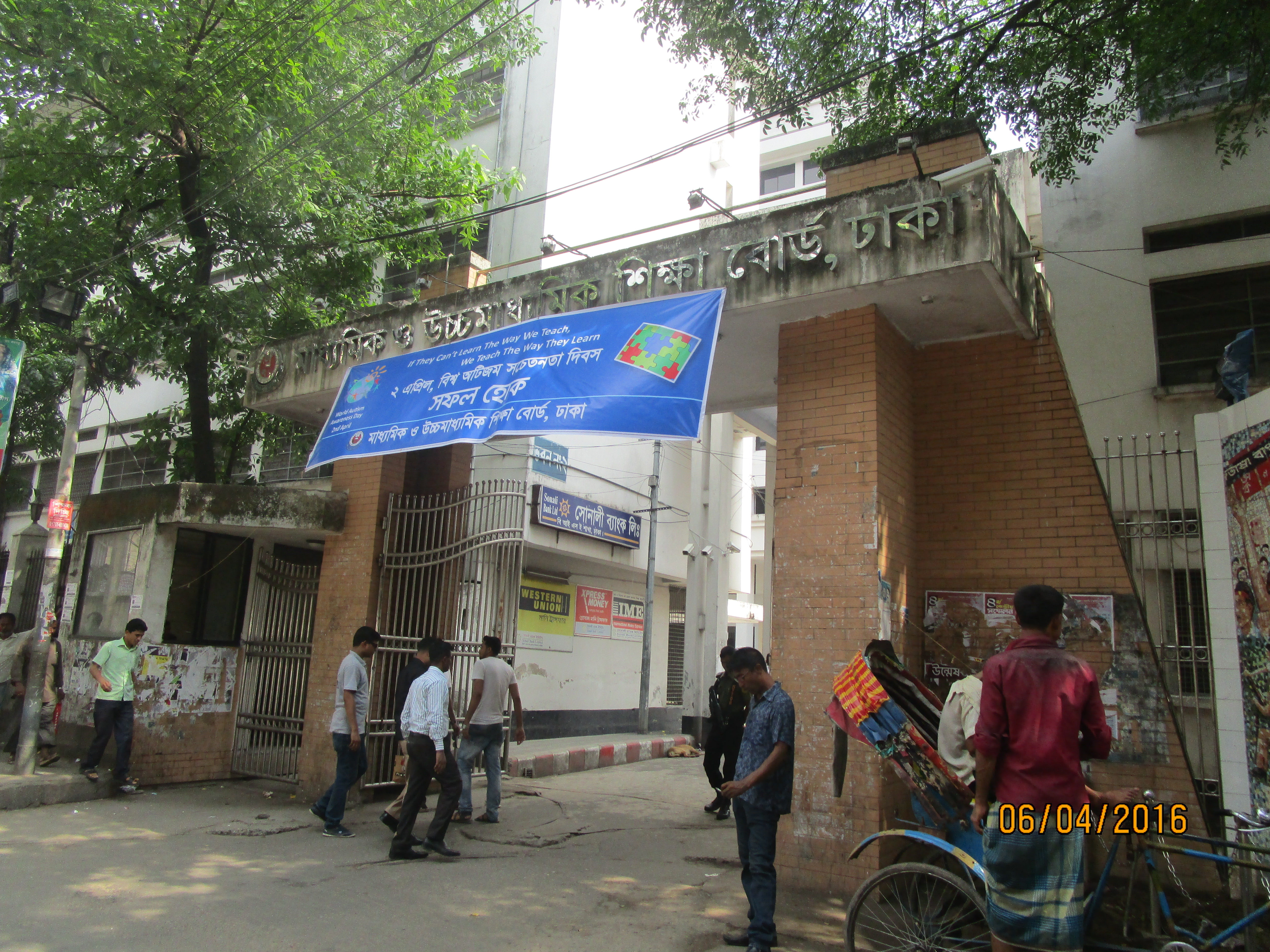 Education Board Dhaka